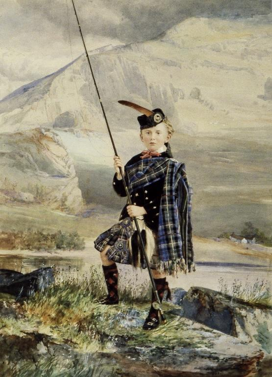 Photograph, Master Hugh Allan, Montreal, QC, painted photograph, 1867, William Notman (1826-1891). Silver salts, watercolour on card - Albumen process 69 x 52 cm